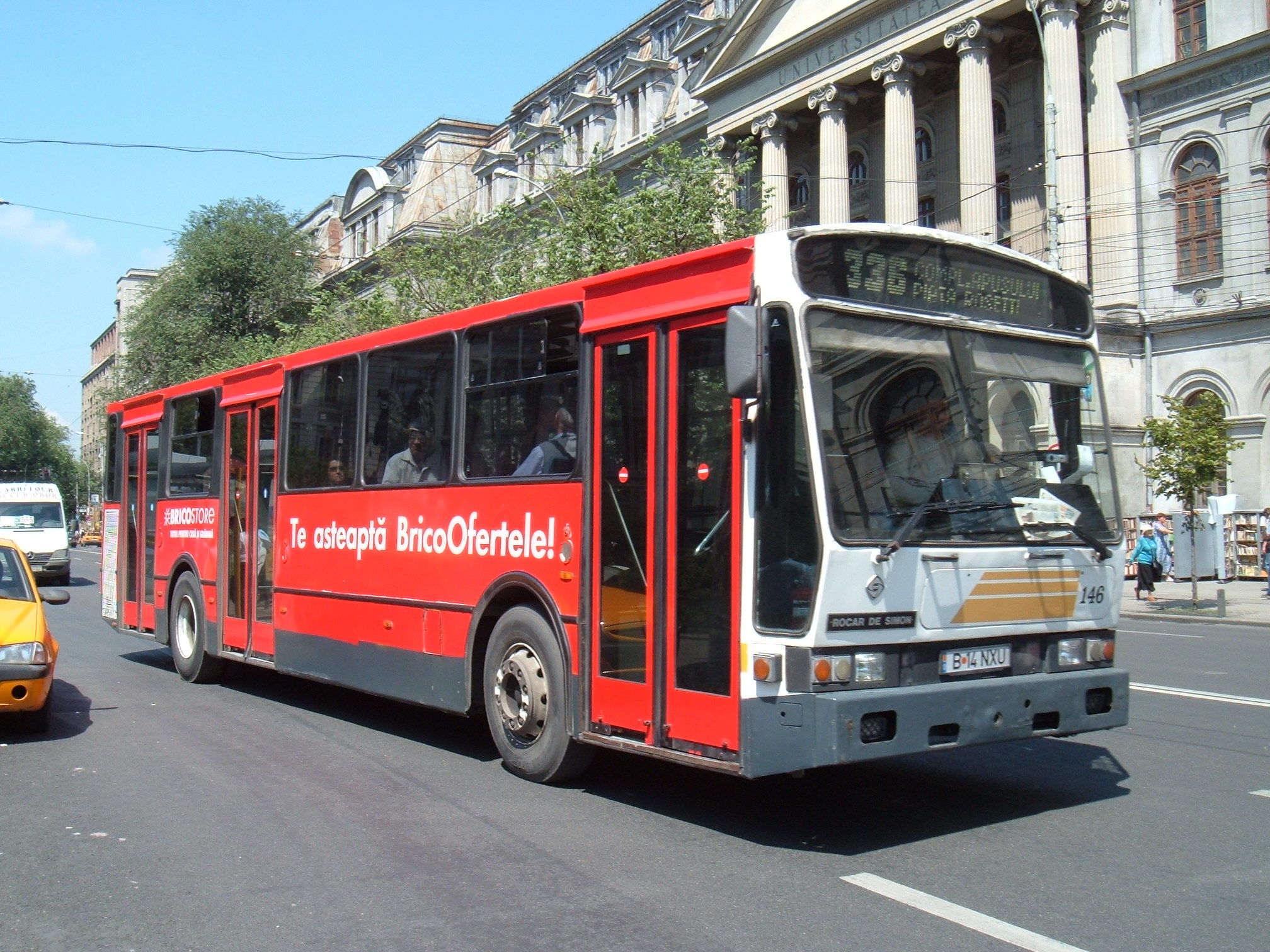 Public bus in Bucharest, Romania (Rocar De Simon U412-260 type). RATB București company.